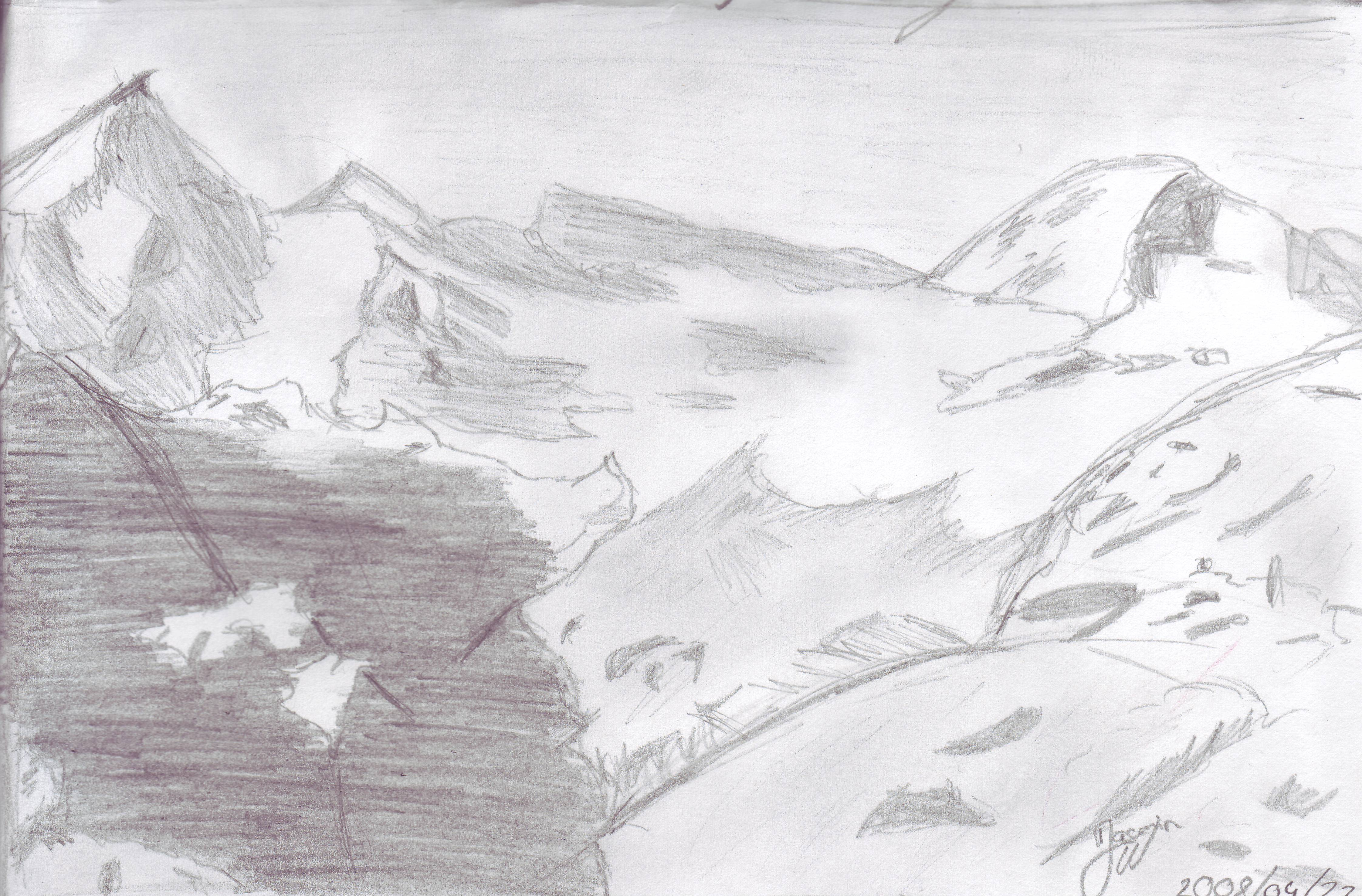 Mont Durand Glacier, Wallis, Switzerland, pencil drawing by Jasmin Nelly Weidmann - Mont-Durand-Glačero, Krajondesegno de Jasmin Nelly Weidmann